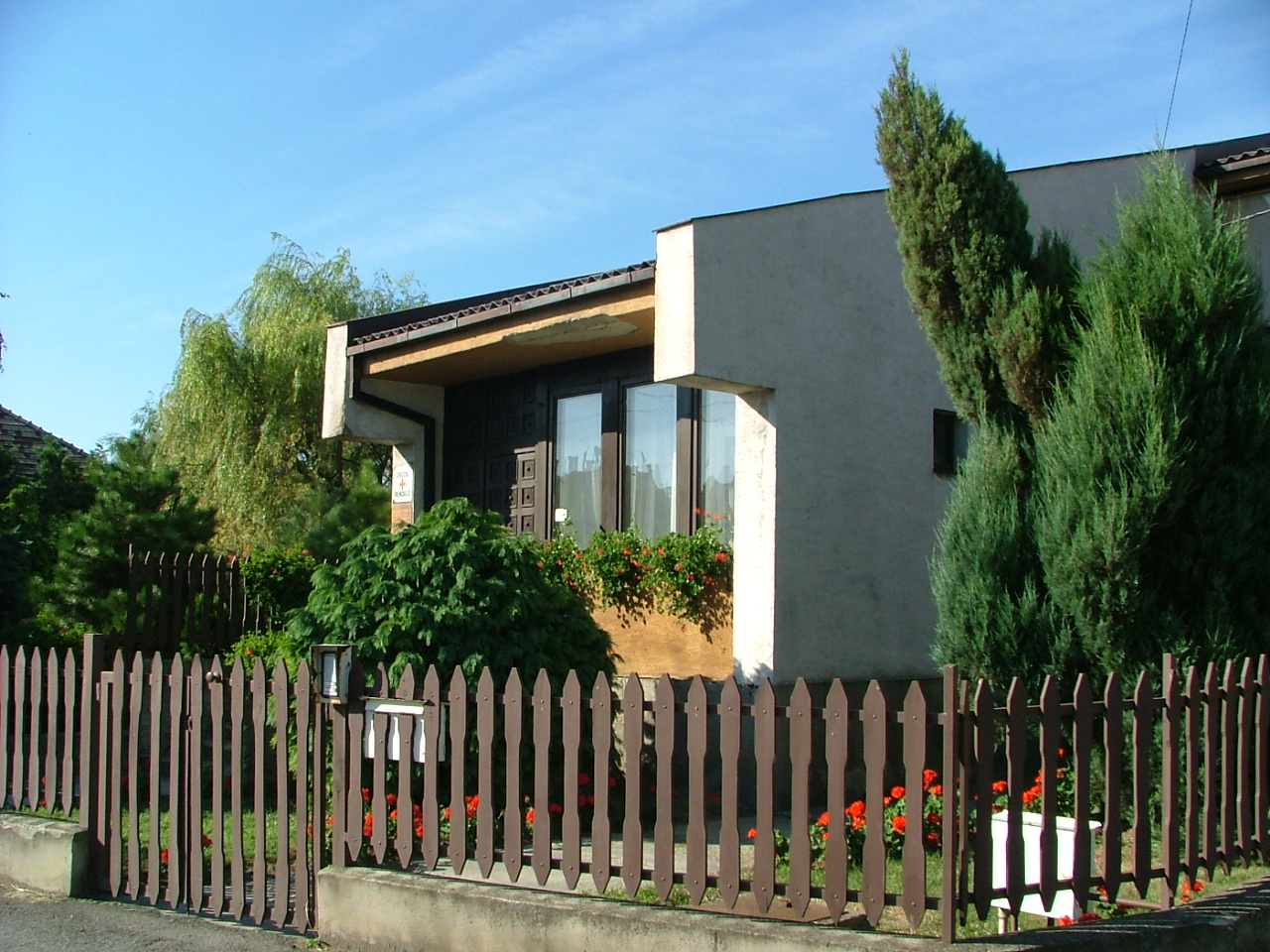 Szilsárkány, the doctor's office